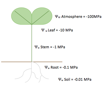 Arbitrary water potentials picked to demonstrate how water moves from higher potential in the soil,through the plant, to lower potential in the atmosphere.